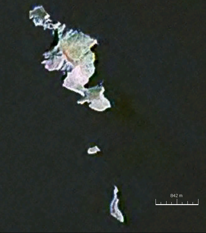 Sofrana Islands, Carpathian Sea, Greece Geocover 2000